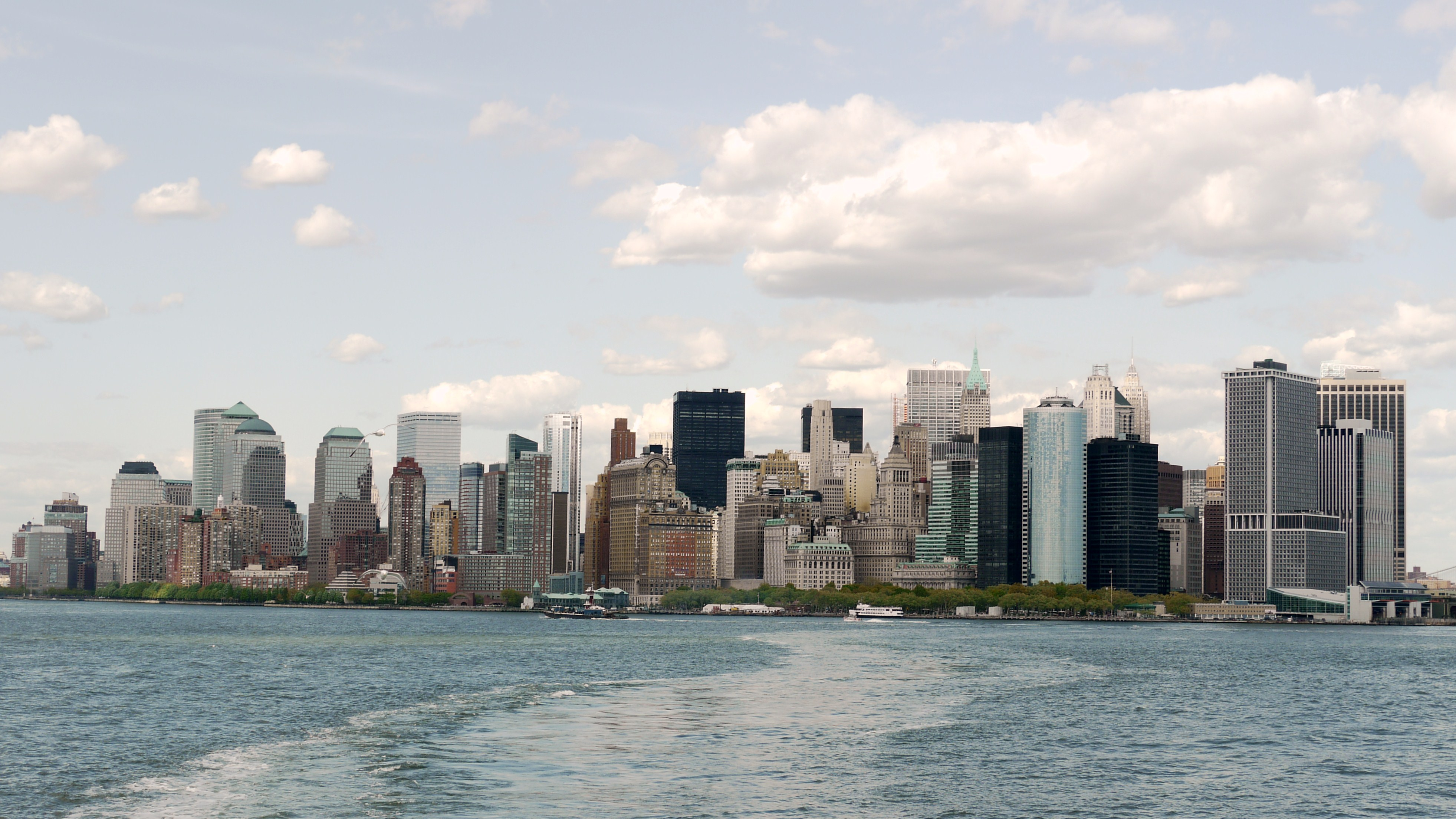 Manhattan Skyline from Staten Island Ferry